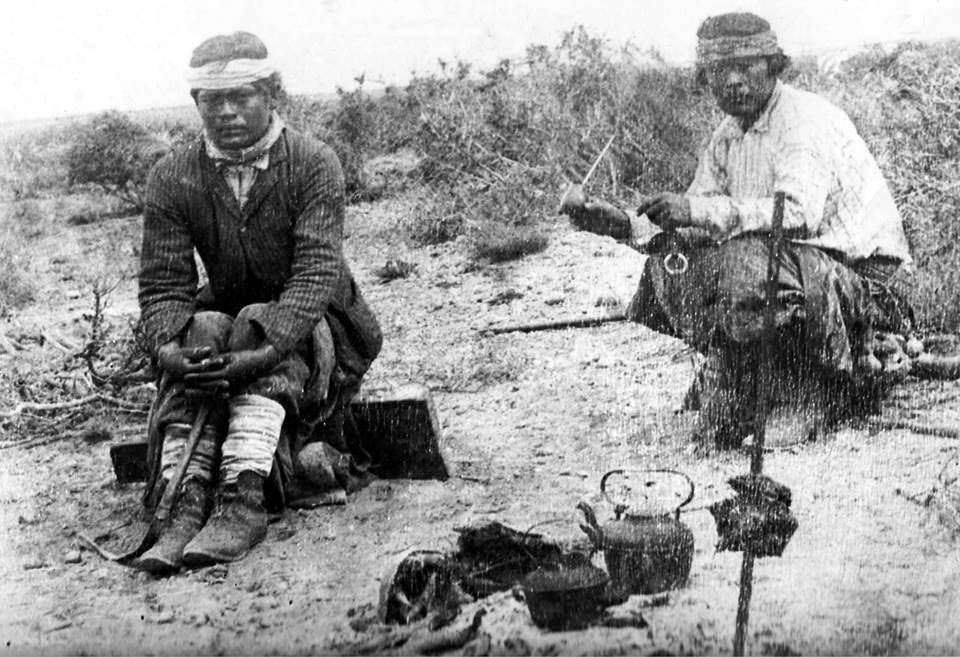 Two tehuelche people drinking mate while the meat ("asado") is roasting. Photo taken during Museo de La Plata’s Border Comission expedition to Southwest Chubut, Patagonia.